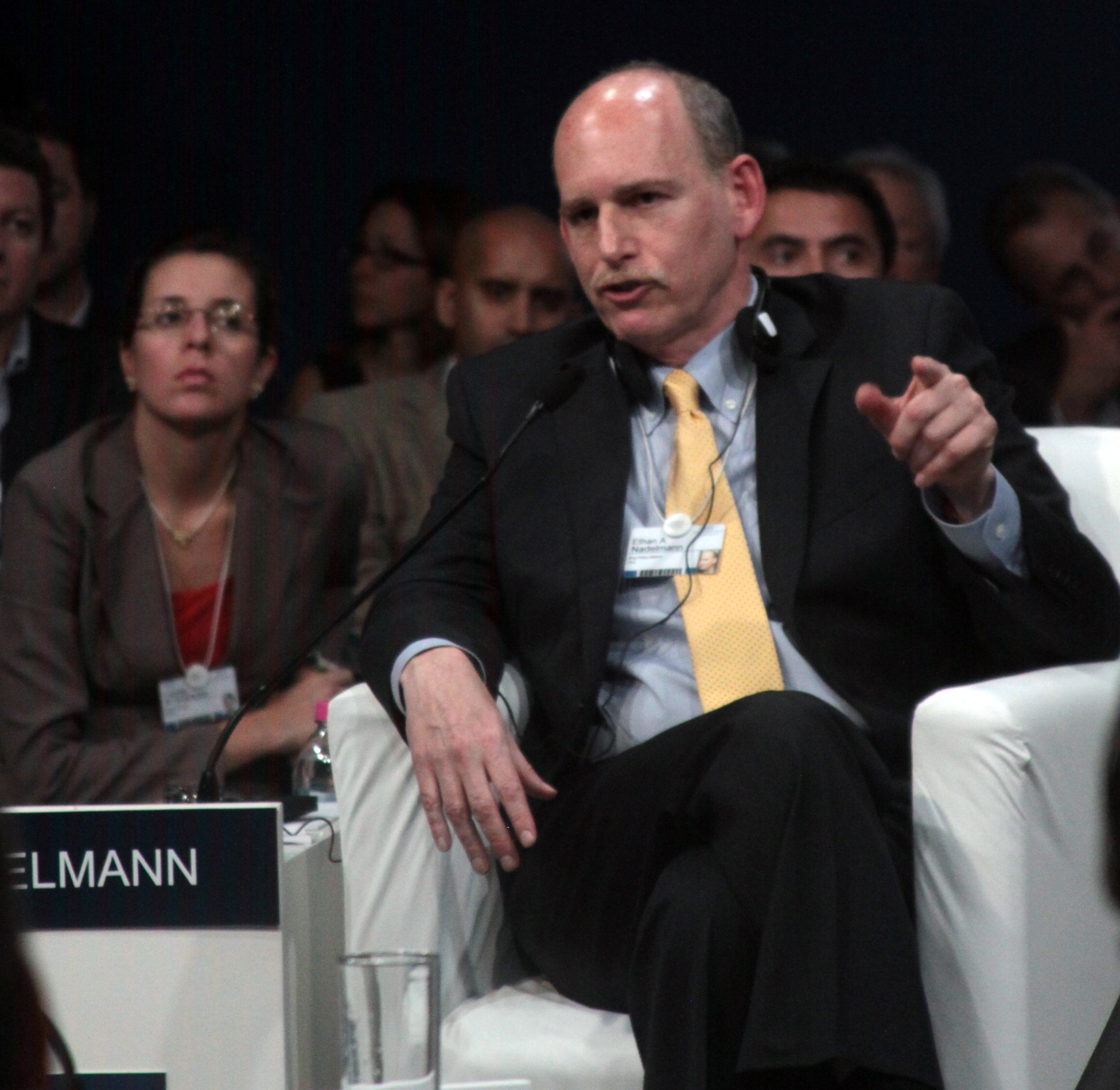 PUERTO VALLARTA/MEXICO, 18APR12 - Ethan A. Nadelmann, Executive Director, Drug Policy Alliance, USAcaptured during Arena Session 'Ending the Drug Curse'. Copyright World Economic Forum ( by Josef Kandoll Wepplo